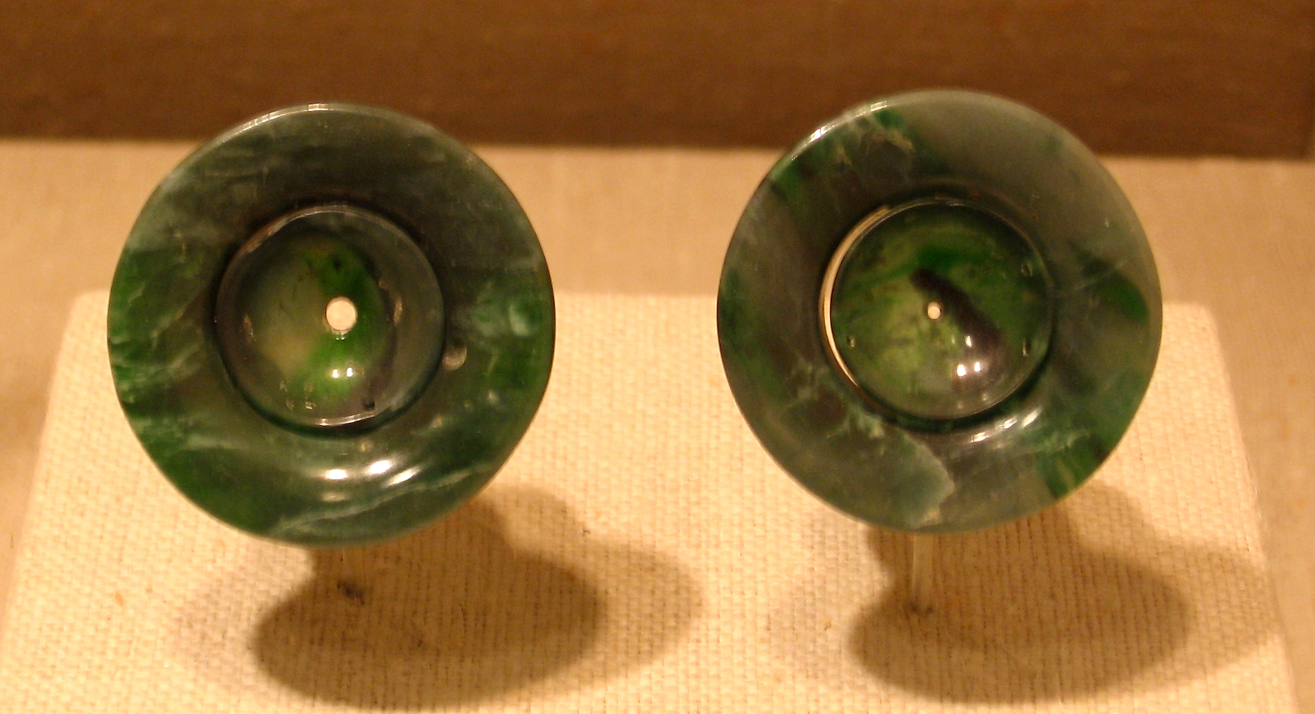 Olmec jade ear flares, from the Met